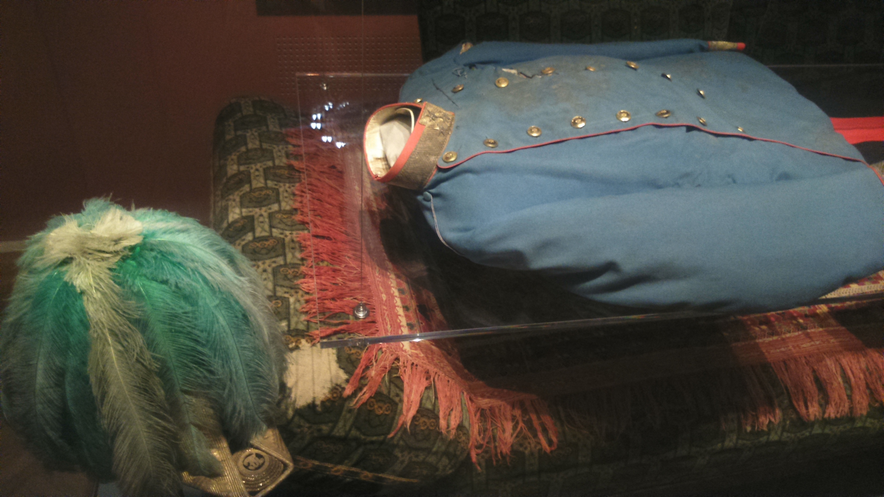 Franz Ferdinand Original uniform in Vienna Museum of Military History.